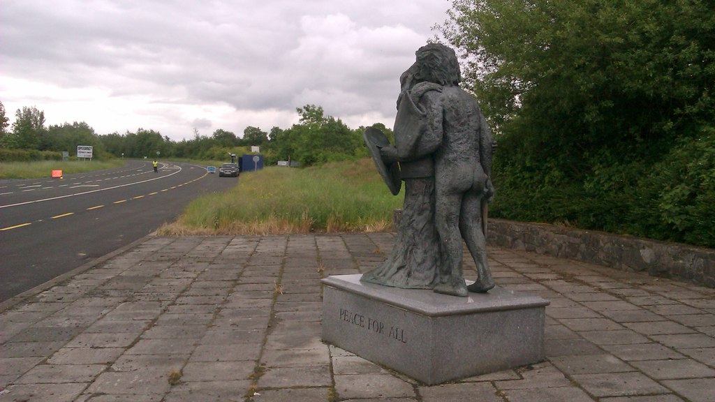 This statue, entitled "Peace For All" was unveiled on April 1st 1999 and was designed by the sculptor Derek A. Fitz Simons from Newbridge, County Kildare. A couple of hundred metres south of the Republic/Northern Ireland border, it is dedicated to the goal of peace and an end to "the troubles."